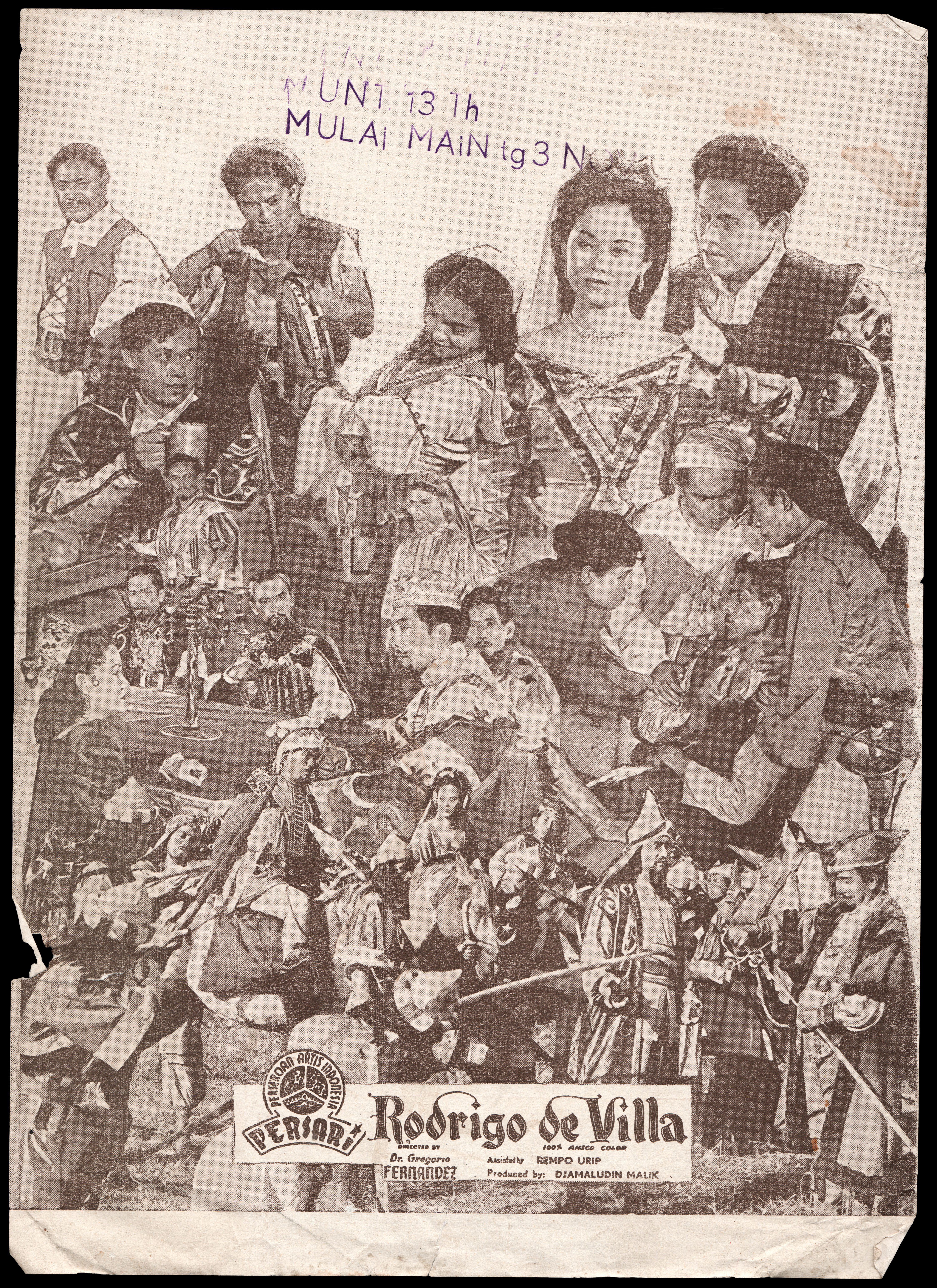 Obverse for a pamphlet advertising the 1952 Indonesian film Rodrigo de Villa. Printed by "Masa Merdeka" Printing Company.